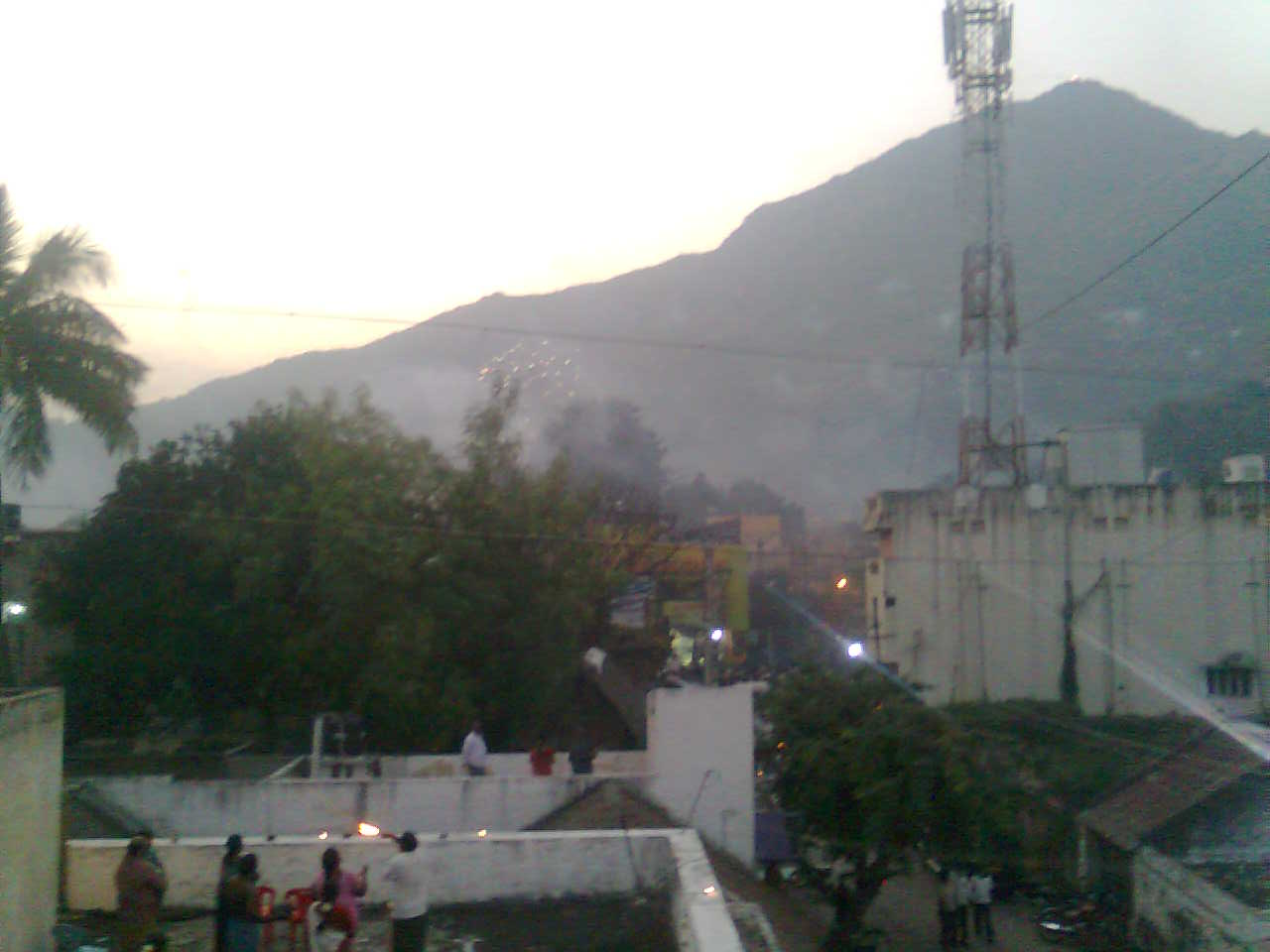 WORSHIPPING MAHAJYOTHI at THIRUVANNAMALAI